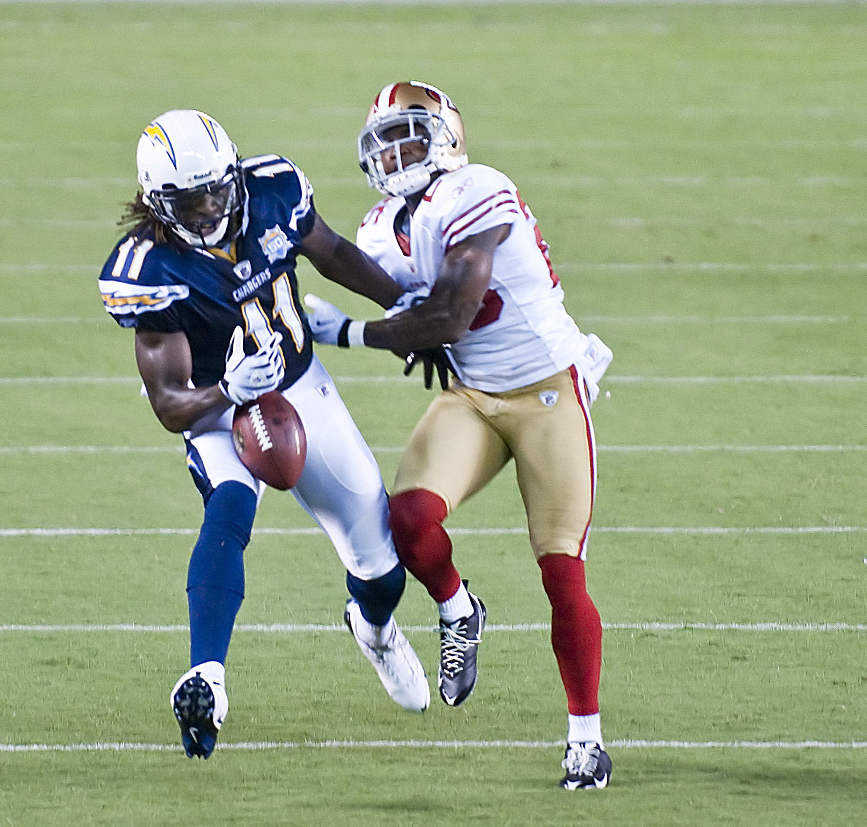 Legedu Naanee attempting to catch a pass